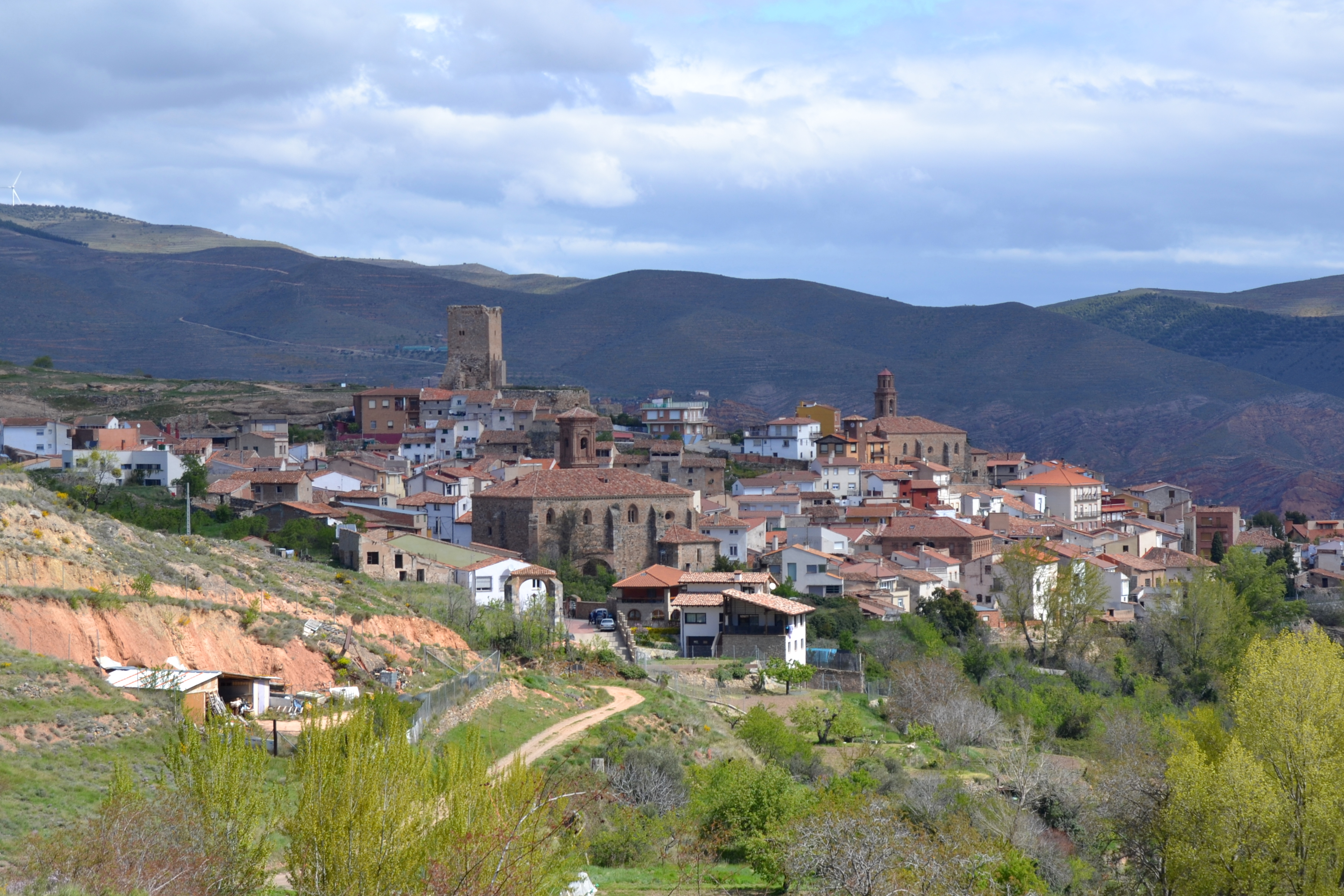 Overview of the main building area in Préjano, village and municipality in La Rioja (Spain).